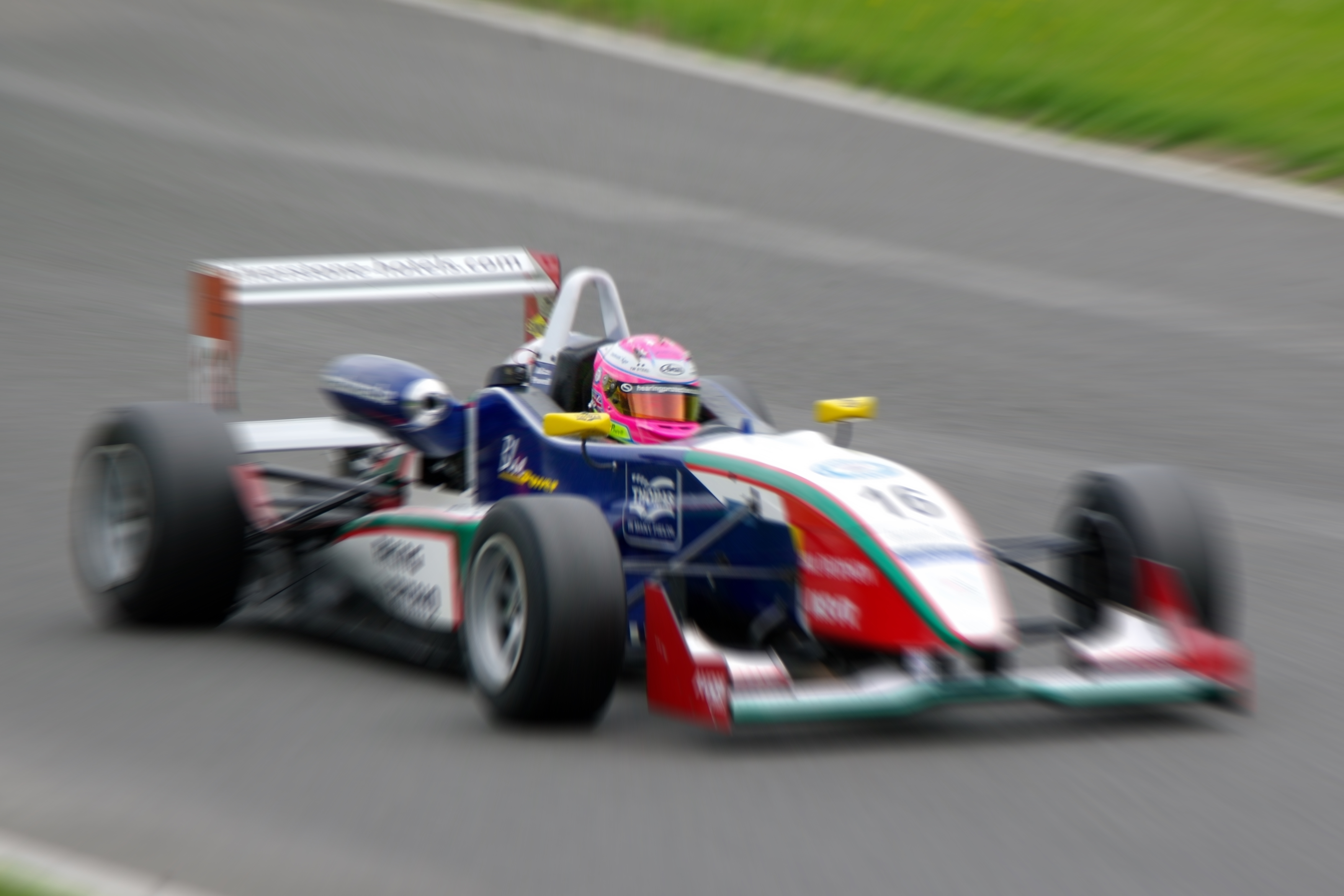 Alice Powell driving for Mark Bailey Racing in race one of the 2013 MSV F3 Cup round at Brands Hatch on 1 June 2013.